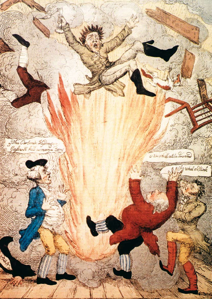 The Blessed Effects of Gas Lights or a new method of Lighting as practised in Great Peter Street, London, published by S W Fores